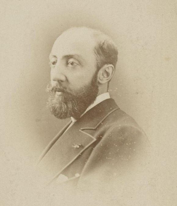 Portrait of Gabriel Devéria (1844-1899), taken in 1886. The reverse has a stamp of the Société de Géographie, Paris with the date "3 JUIL86" (3 July 1886).